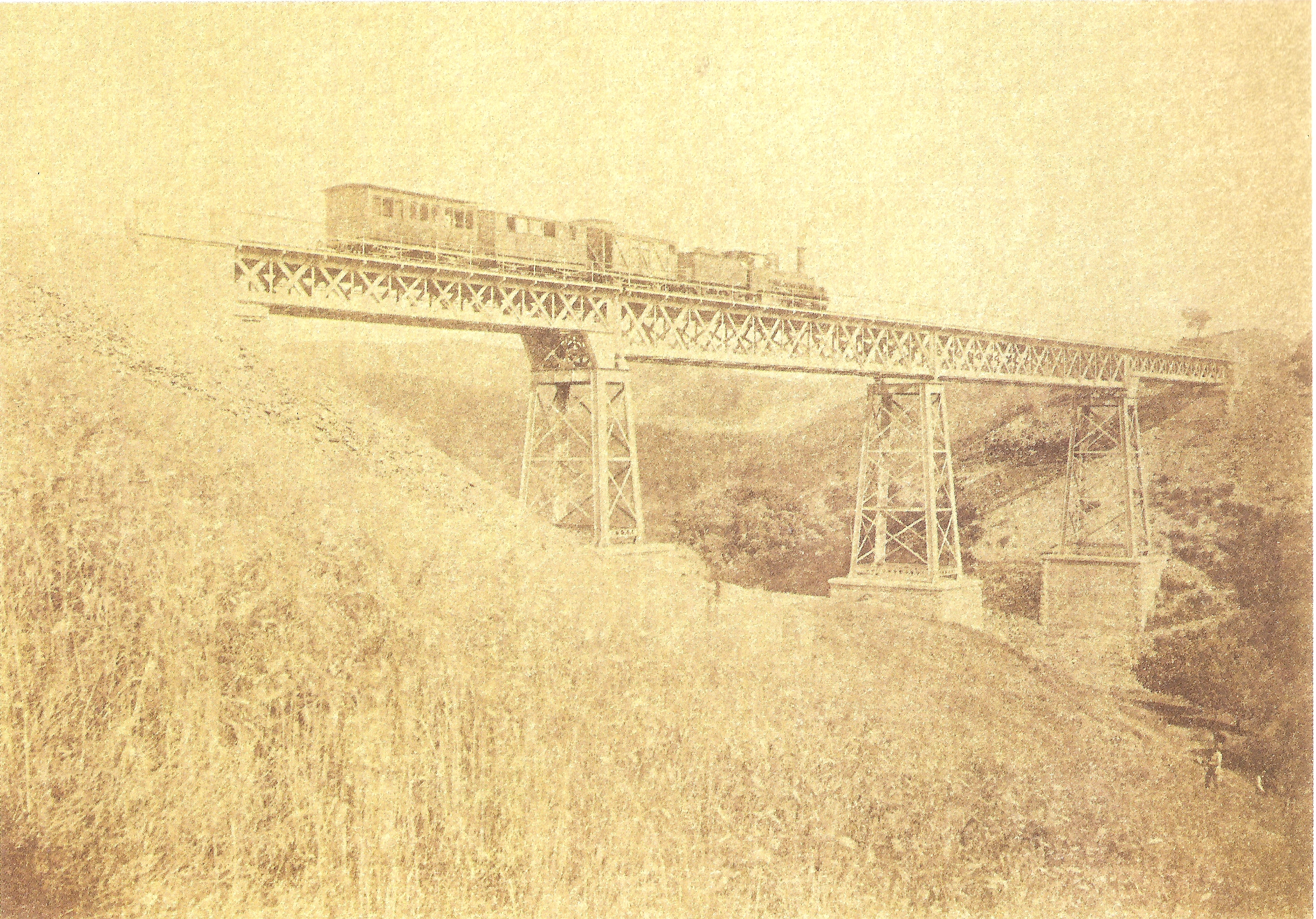 Old Magra Rail Bridge, at the KP 237,835 of the Sul Railway, in Portugal.